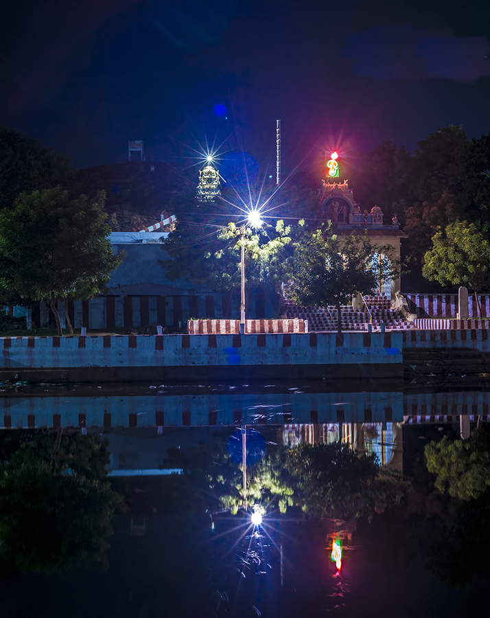 Night View Murugan Temple, Vallioor